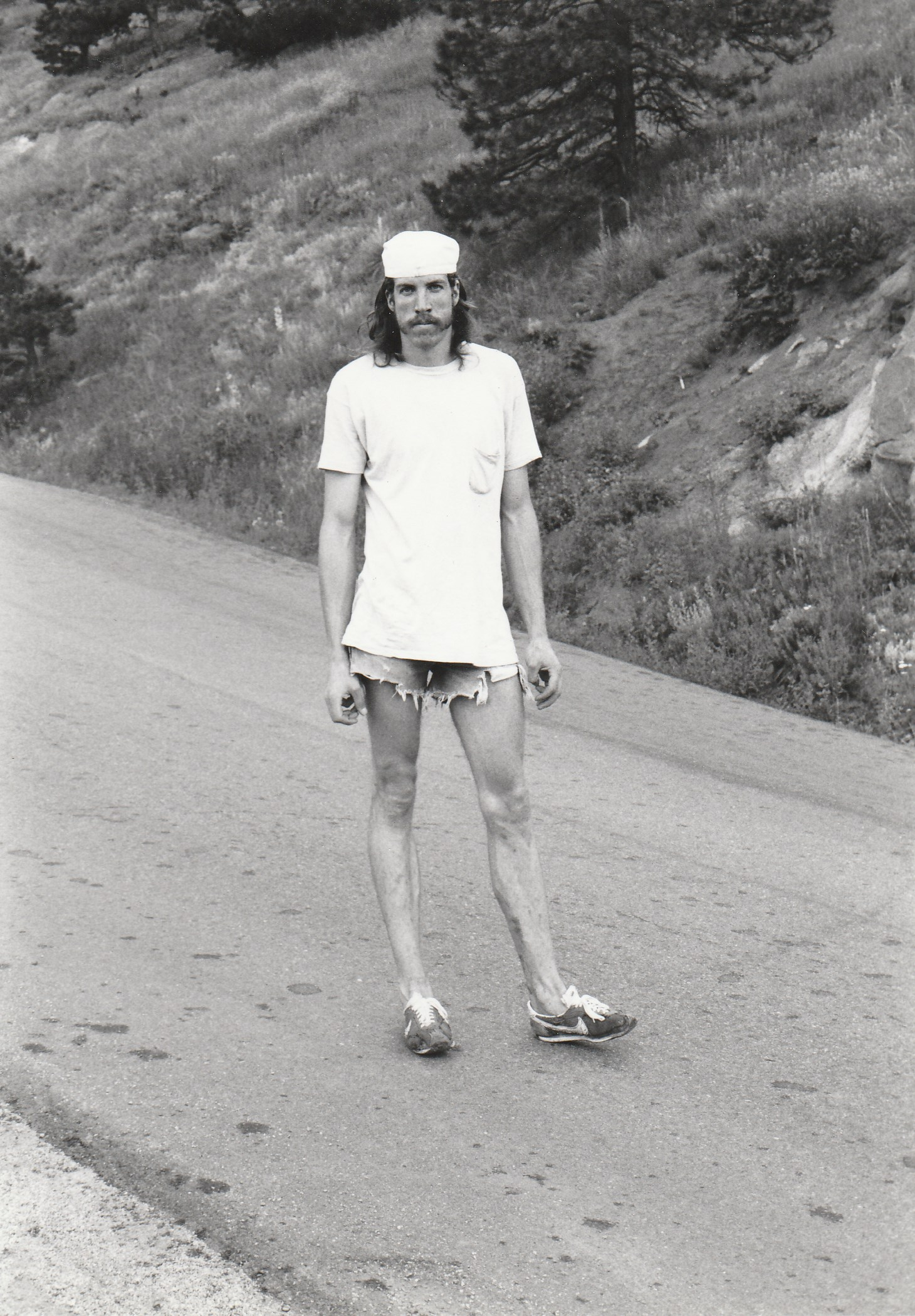 Jim Holloway stops bouldering on Flagstaff Mountain, above Boulder, long enough to pose for a snapshot. Photo by Pat Ament.